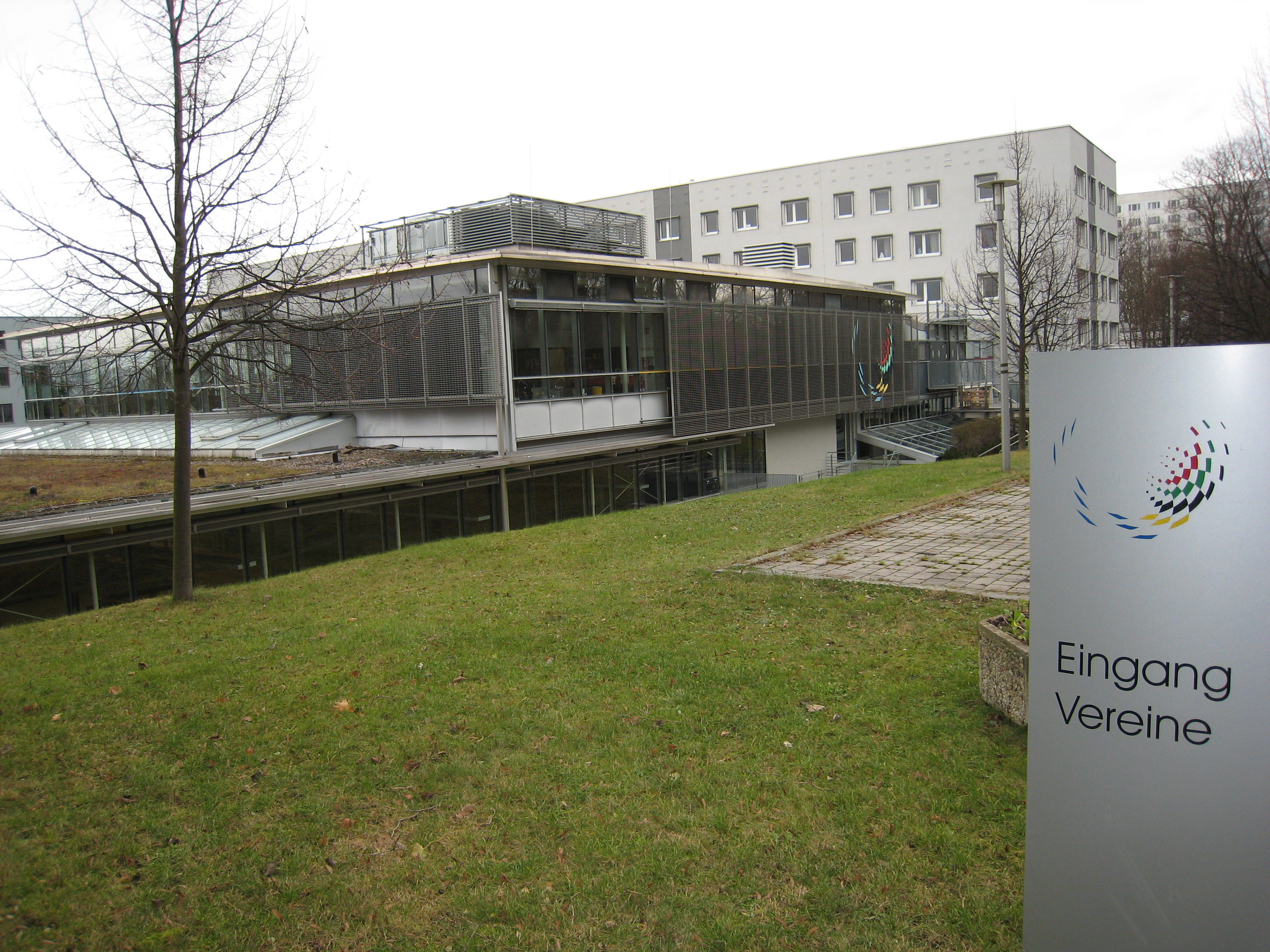 Sport school Pierre-de-Coubertin Erfurt, Mozartallee 4